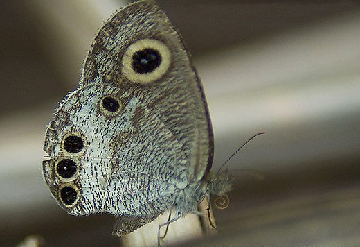 Common fourring (Ypthima huebneri). Shot in Perur, Coimbatore, Tamilnadu.